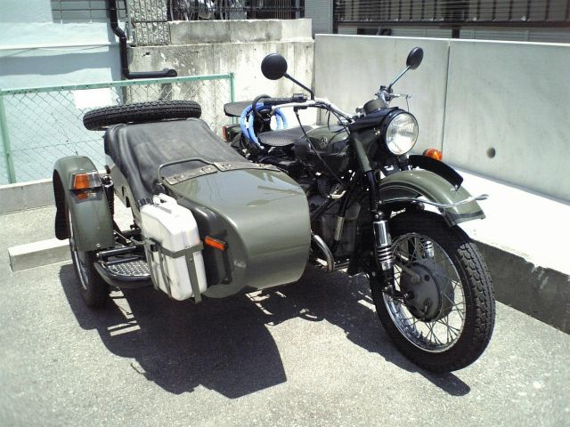 Ural 650cc sidecar two-wheel drive Photo by Junji Matsumoto"COLONEL-J"